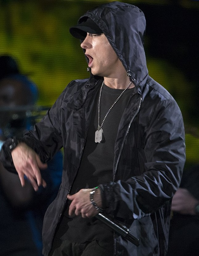 Eminem raps with a live band during The Concert for Valor in Washington, D.C. Nov. 11, 2014. DoD News photo by EJ Hersom